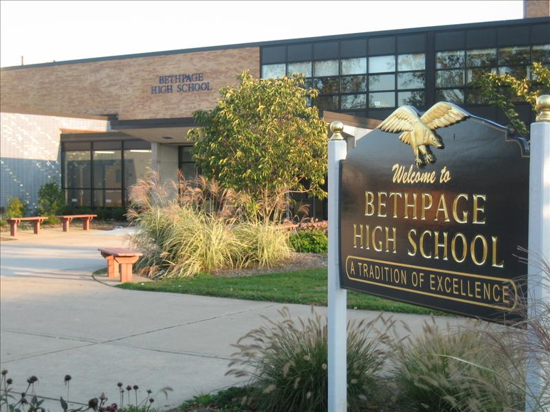 Photo of Bethpage High School